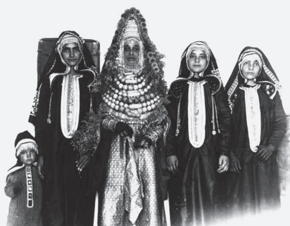 Sanaite Jews three women wearing gargish gadifa and women in the middle is wearing tsbuk lulu, 1936